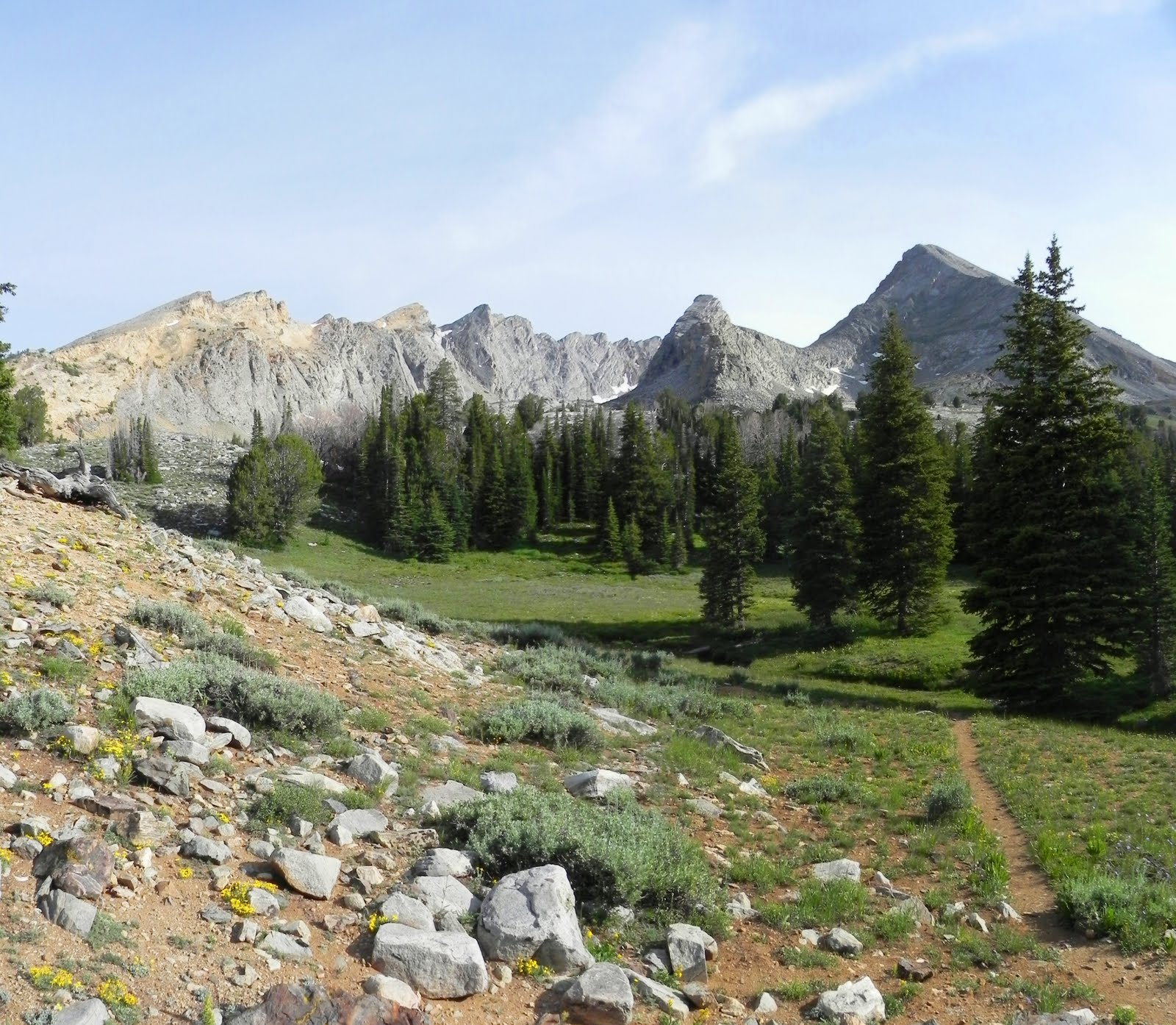 Pioneer Mountains near Hyndman Peak in Sawtooth National Forest, Idaho